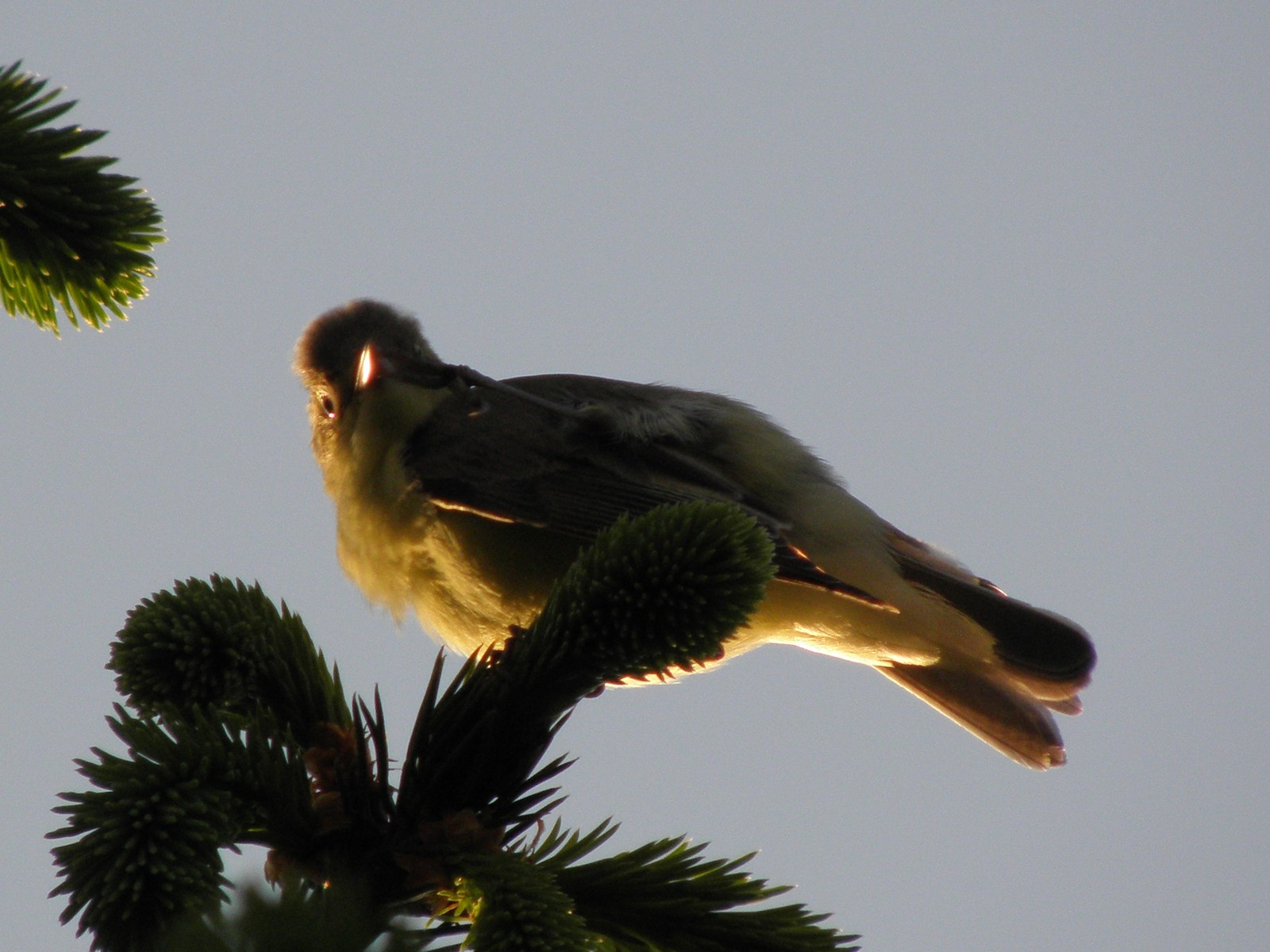 Hippolais icterina